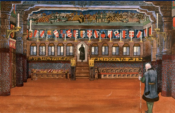 Stage set design for Hamlet in Maly Theatre, Moscow